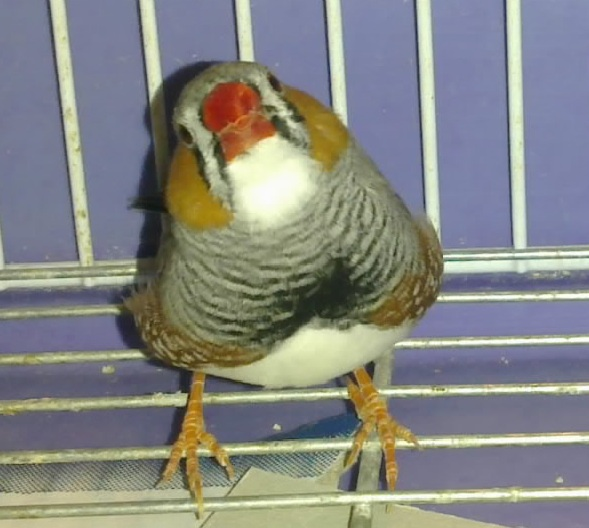 Zebra Finch (Taeniopygia guttata).